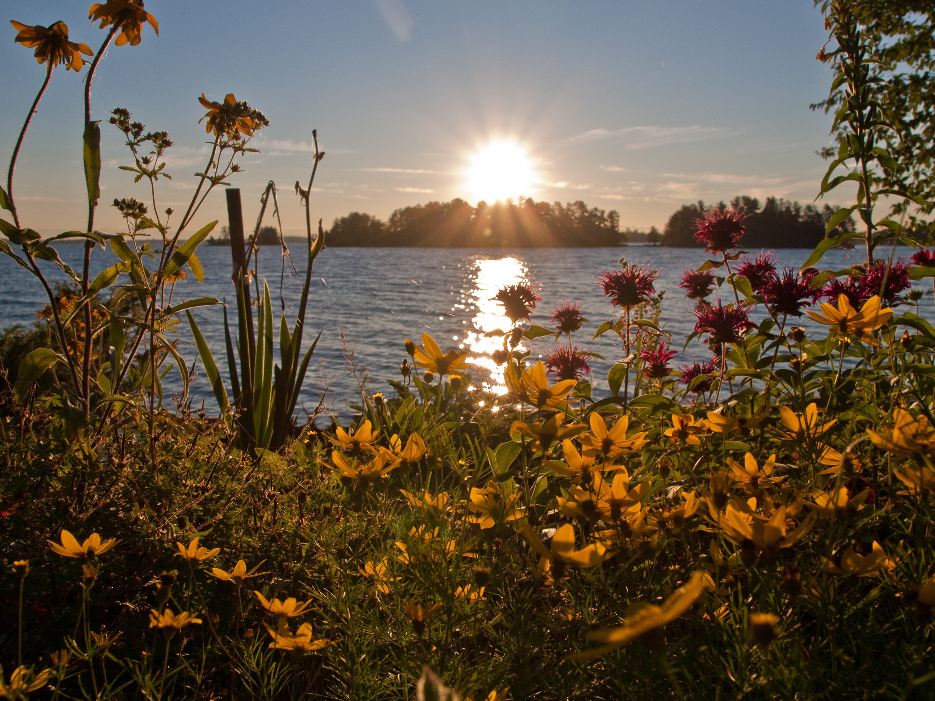 Rainy Lake. Voyageurs National Park, Minnesota, USA.